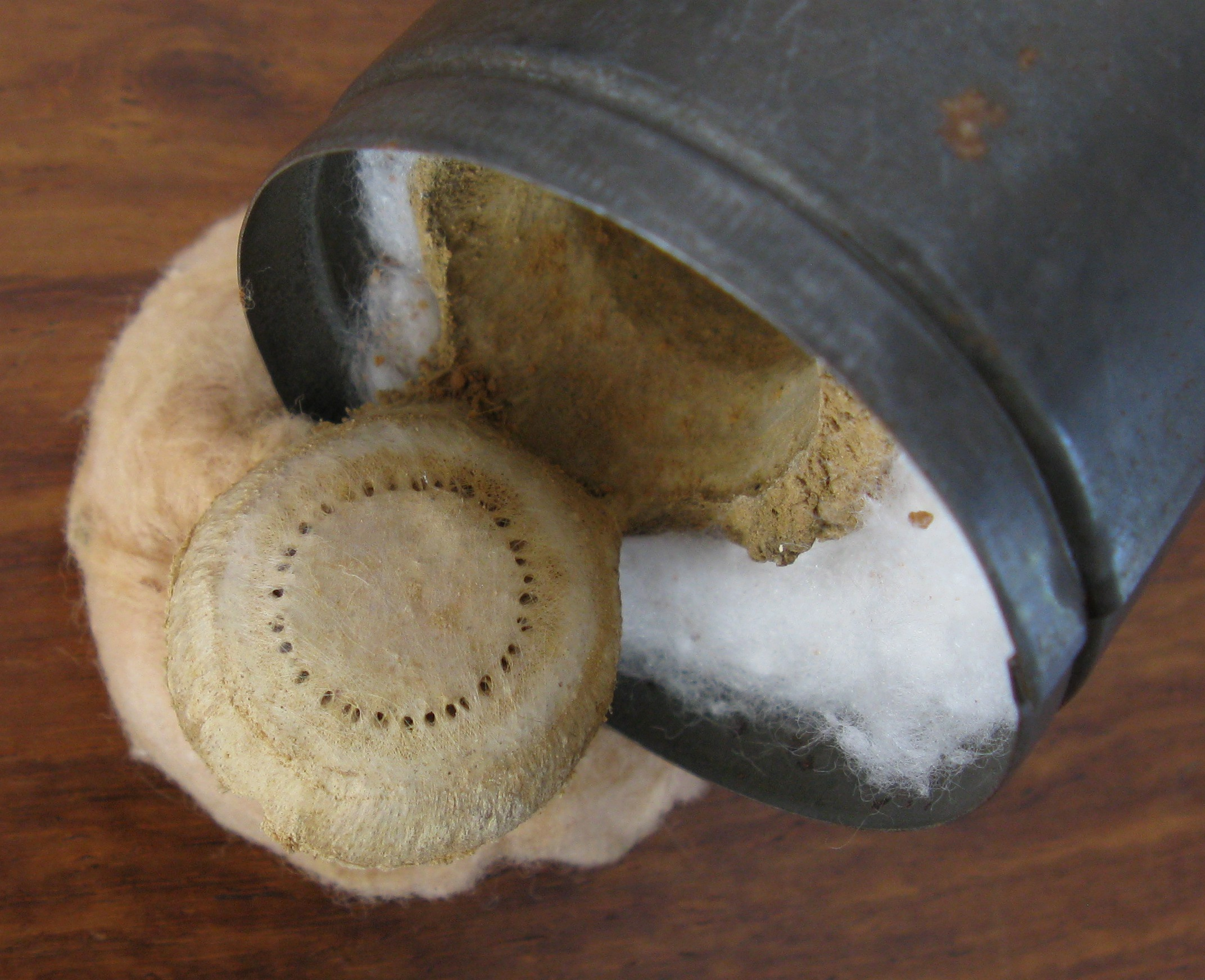 Ctenizidae, probable genus: Stasimopus. Cork-lid Trapdoor spider burrow saved intact in baking powder tin ca late 19th century